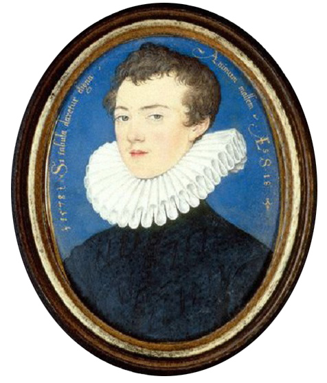 A painting of Francis Bacon, when he was only 18 years old.